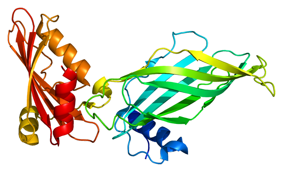 Structure of the COPG protein. Based on PyMOL rendering of PDB 1pzd.